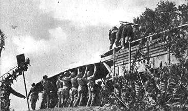 Warsaw Uprising